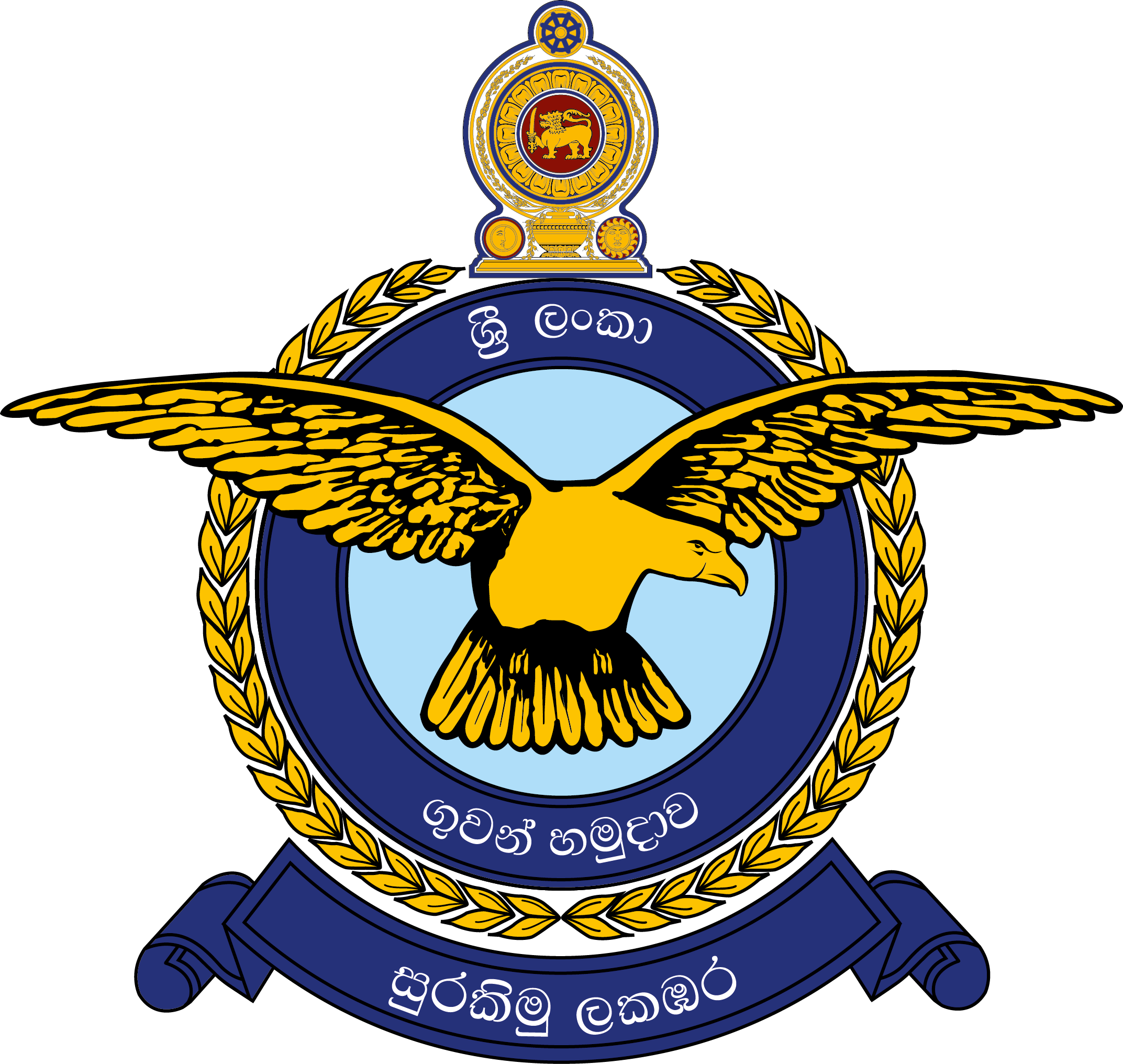 Sri Lanka Air Force emblem